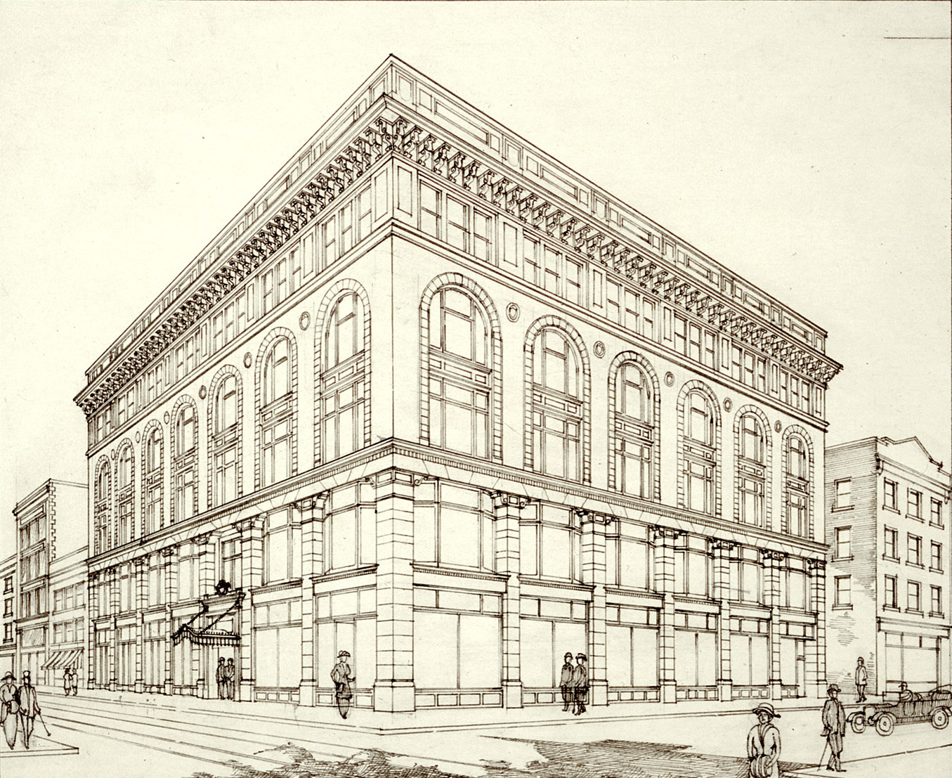 Ryrie Building : perspective of the south and west facades. Toronto, Canada.